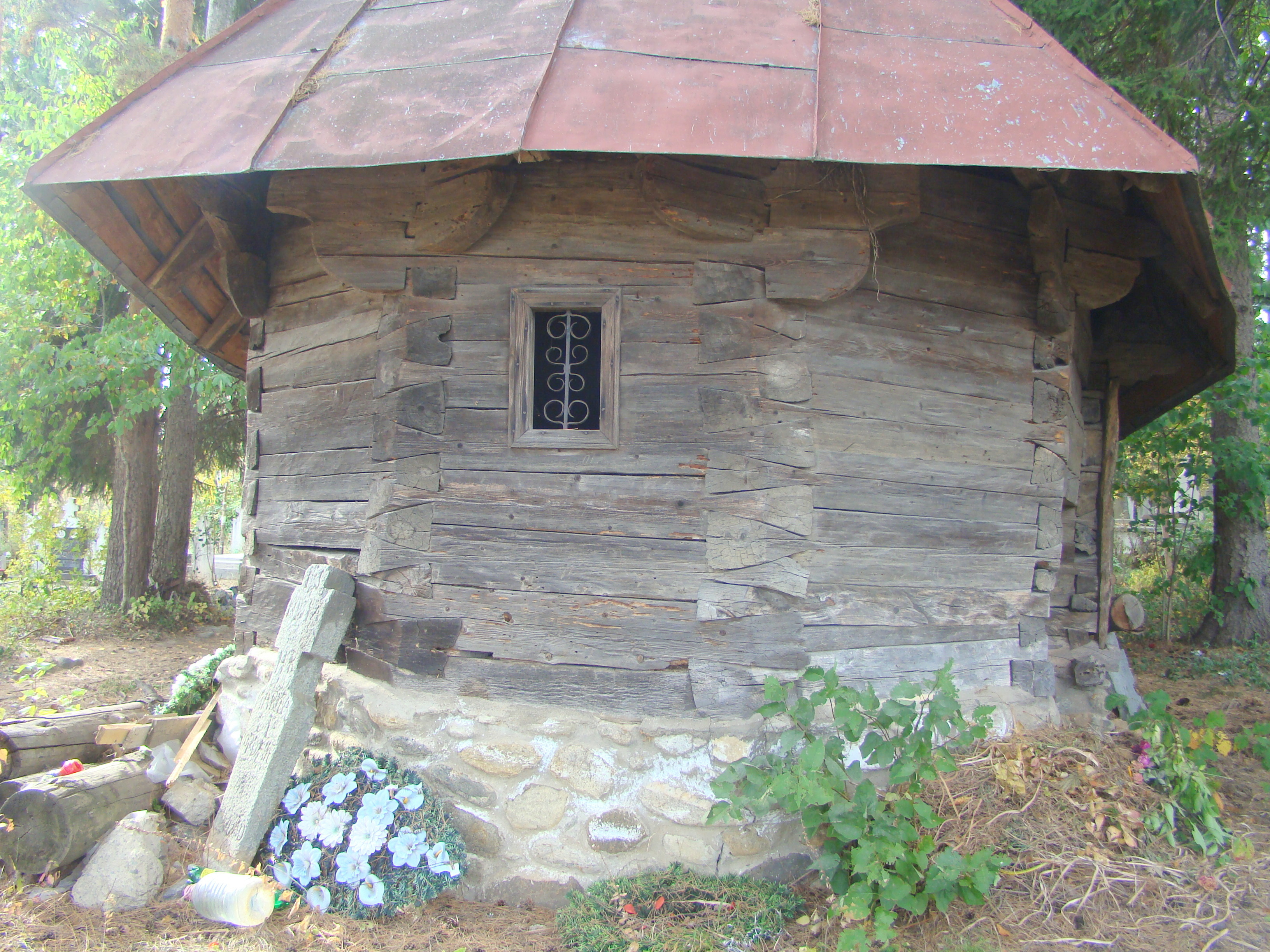 Wooden church in Curpen, Gorj county, Romania